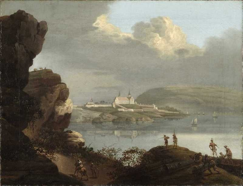 Oslo with Akershus fortress.